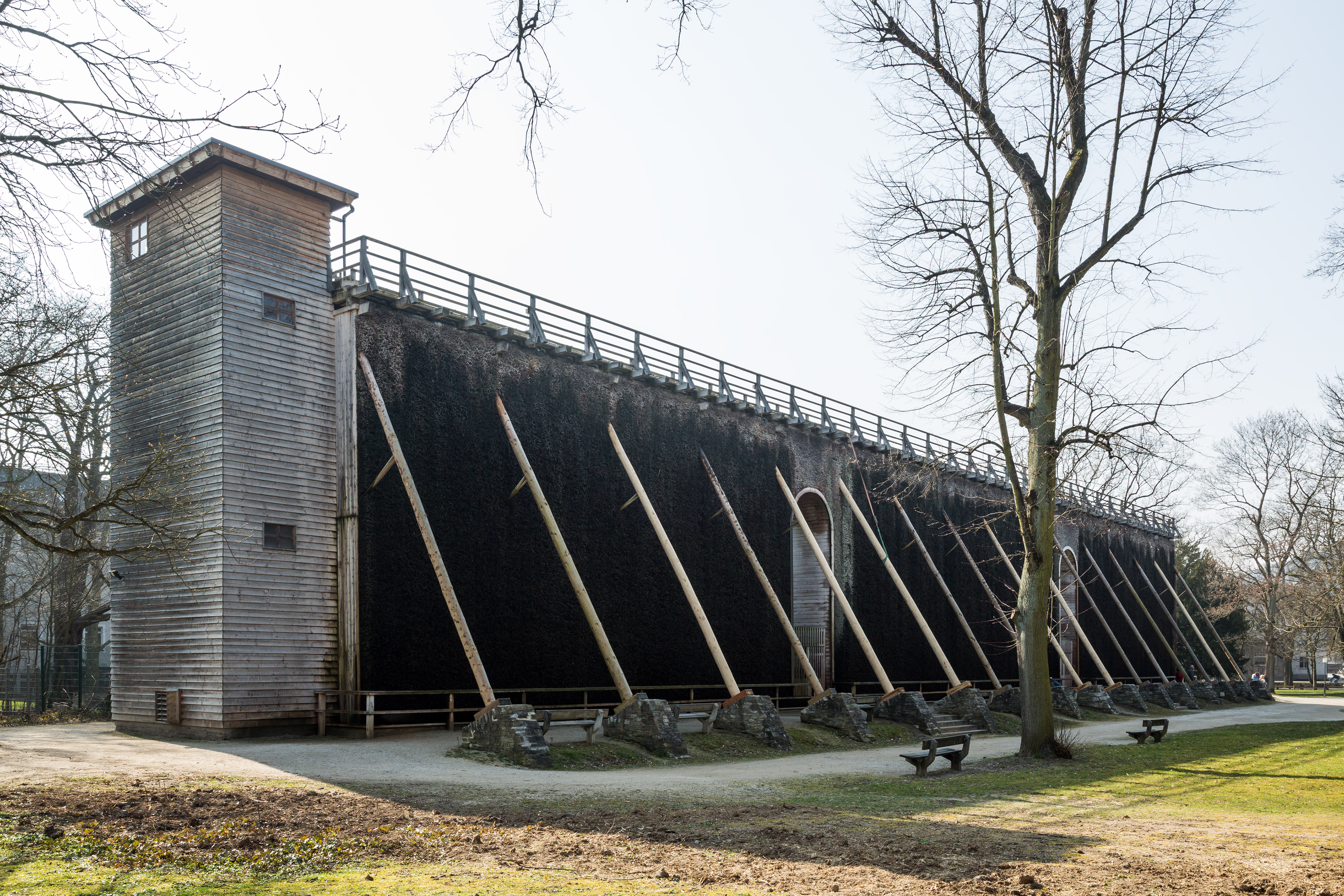 Bad Nauheim: Gradierbau I (Graduation Tower I) as seen from the northeast